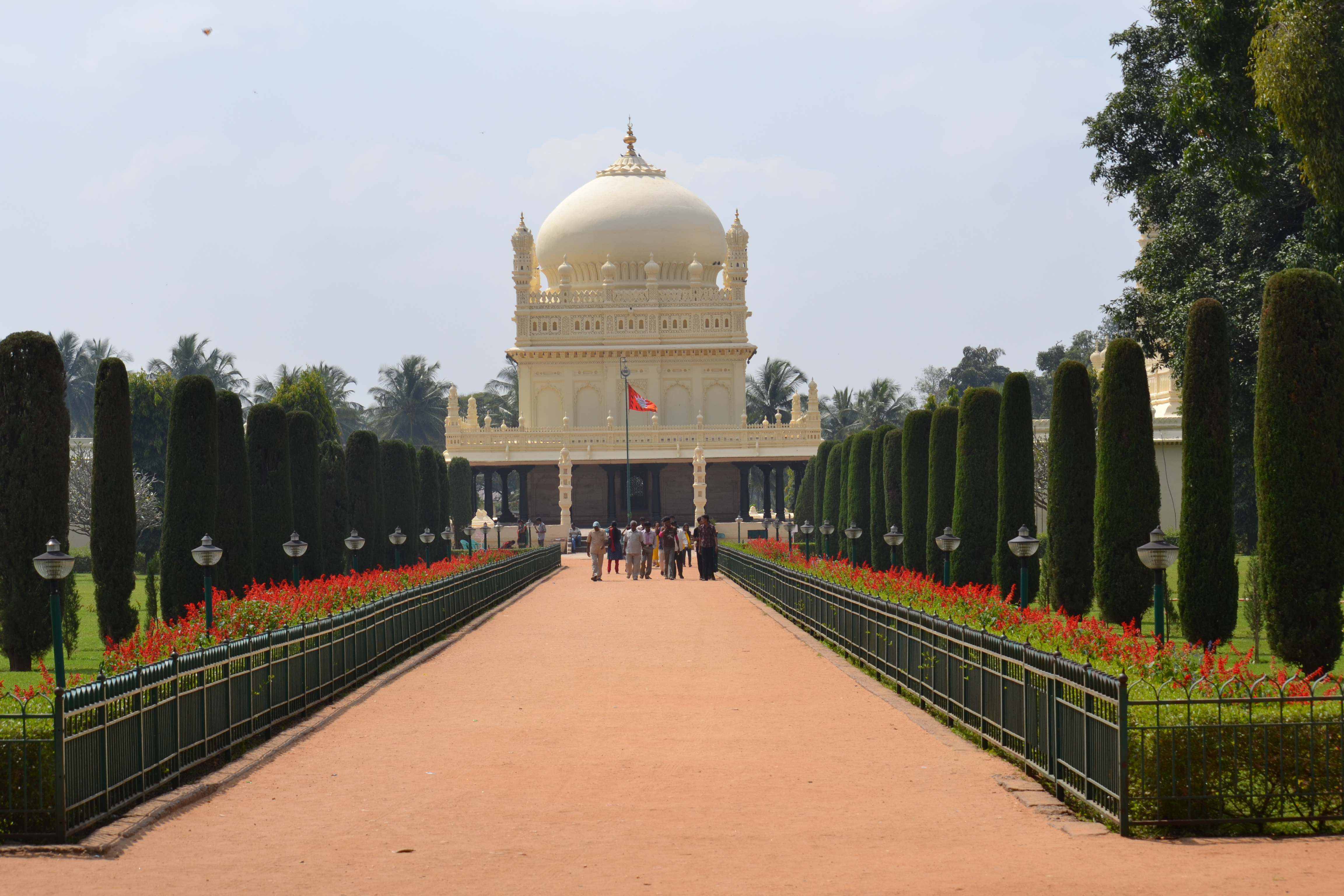 The Gumbaz at Srirangapatna is a Muslim mausoleum at the centre of a landscaped garden, holding the graves of Tippu Sultan, his father Hyder Ali, and his mother Fakr-Un-Nisa. aLocated in Srirangapatna,some 20km from Mysore city of Karnataka.